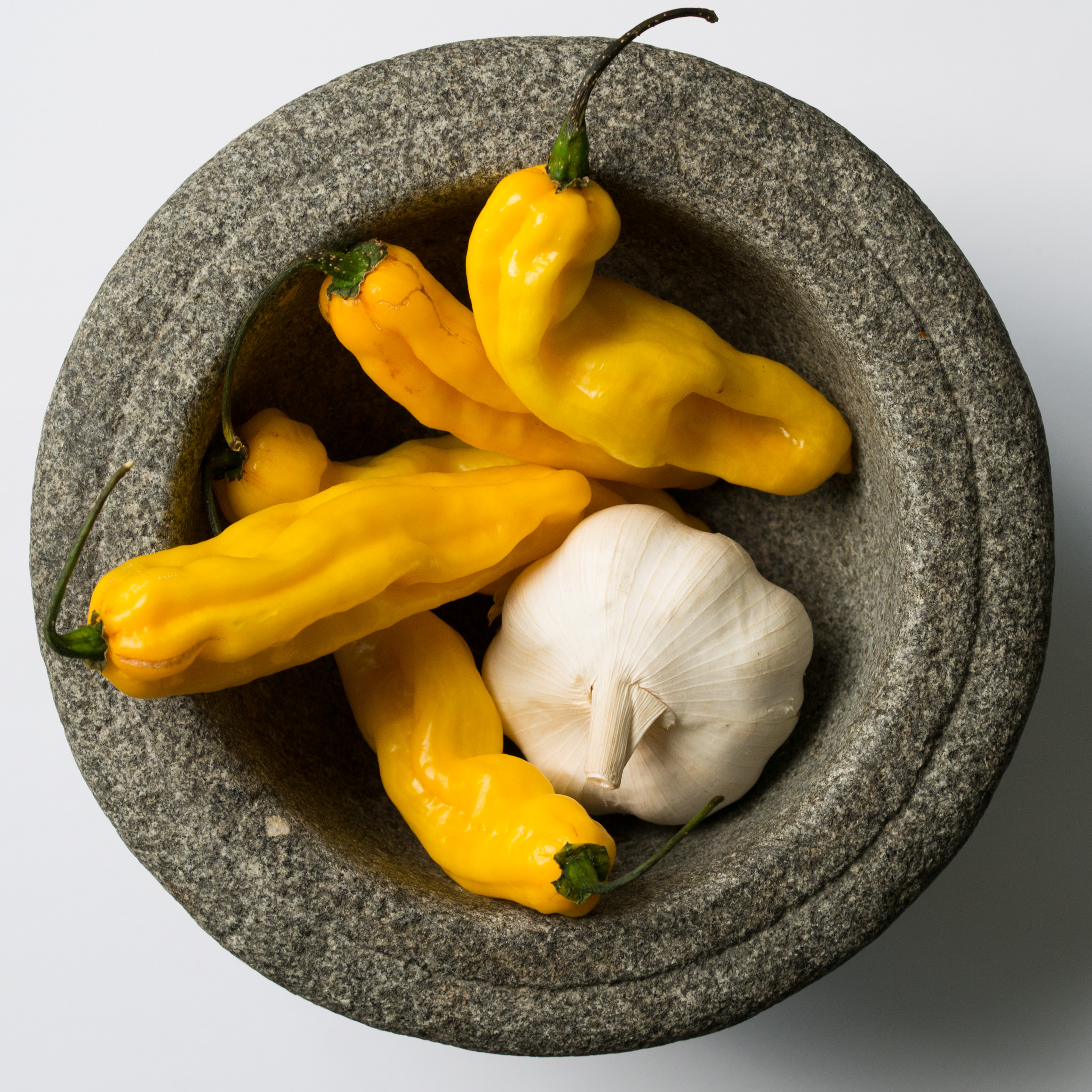 Surinamese Madame Jeannette peppers in a granite mortar from Southeast Asia. The garlic bulb is for size comparison. These peppers were bought at a regular supermarket in the Netherlands.